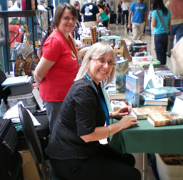 Julie Czerneda in the main lobby at Polaris 26 science fiction convention, Richmond Hill, ON, 7 July 2012